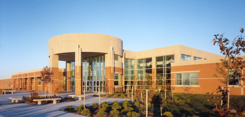 Exterior of Lincoln Southwest High School